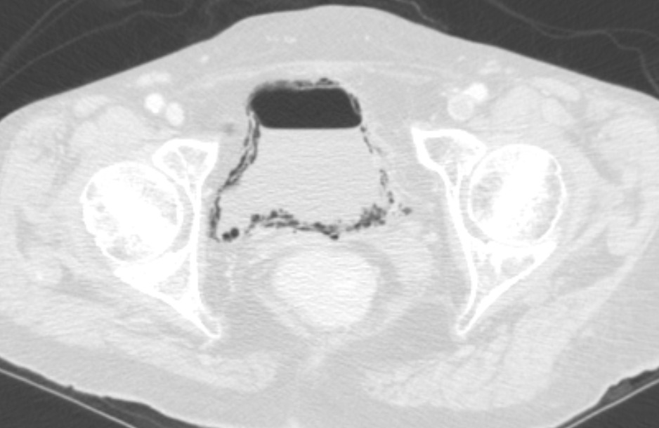 This image is part of a series which can be scrolled interactively with the mousewheel or mouse dragging. This is done by using Template:Imagestack. The series is found in the category Computed tomography of emphysematous cystitis case 001. Emphysematöse Zystitis in der Computertomographie (Lungenfenster zur besseren Kontrastierung der Gaseinlagerungen).